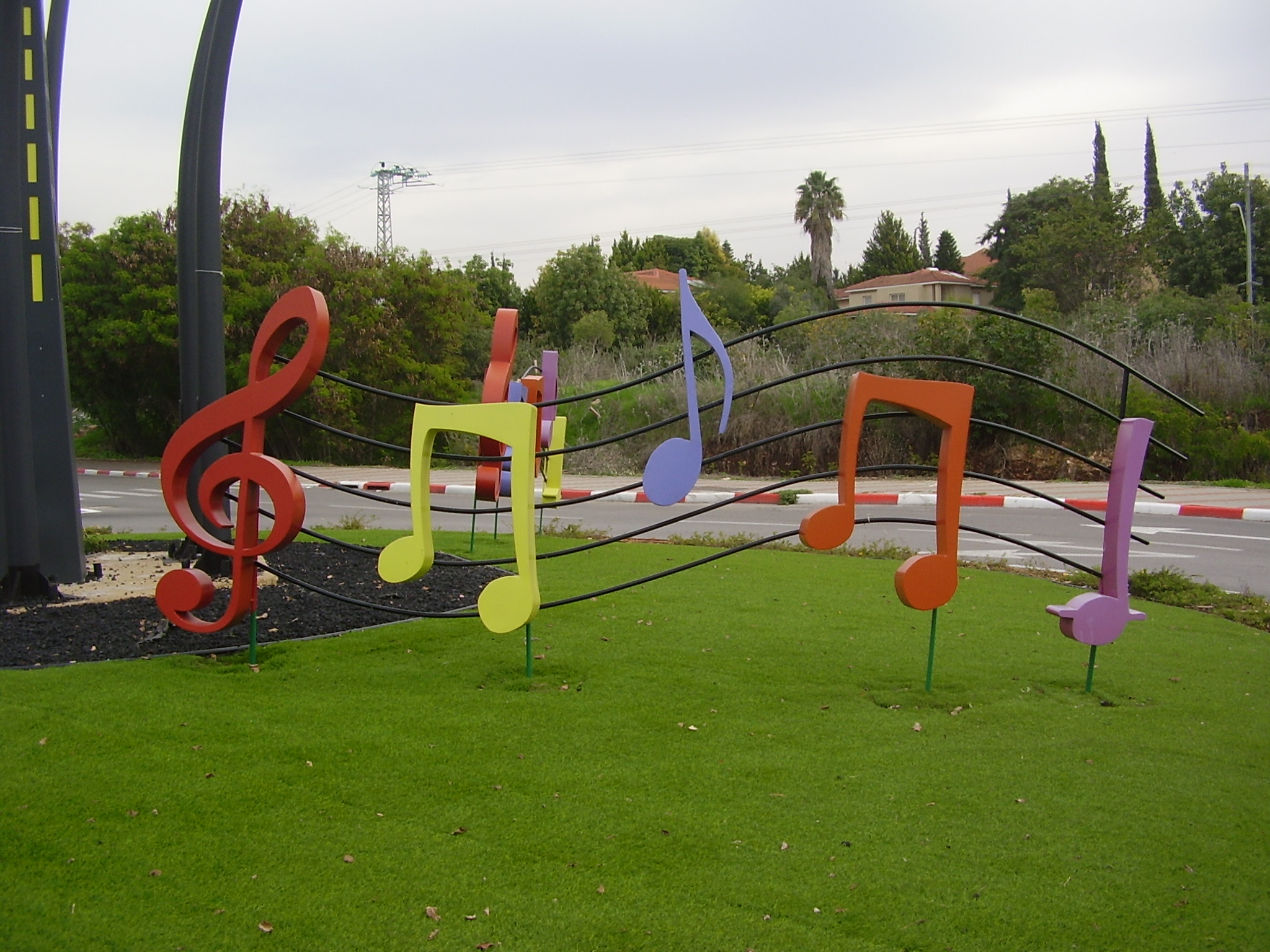 Rosh Ha'ayin music town - Notes Square